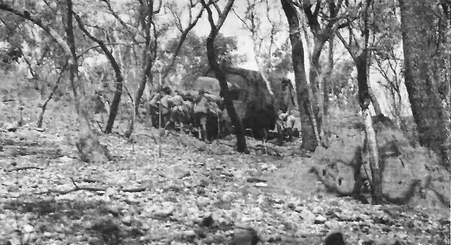 Belgian Force Publique truck on rough Ethiopian terrain during the East African Campaign